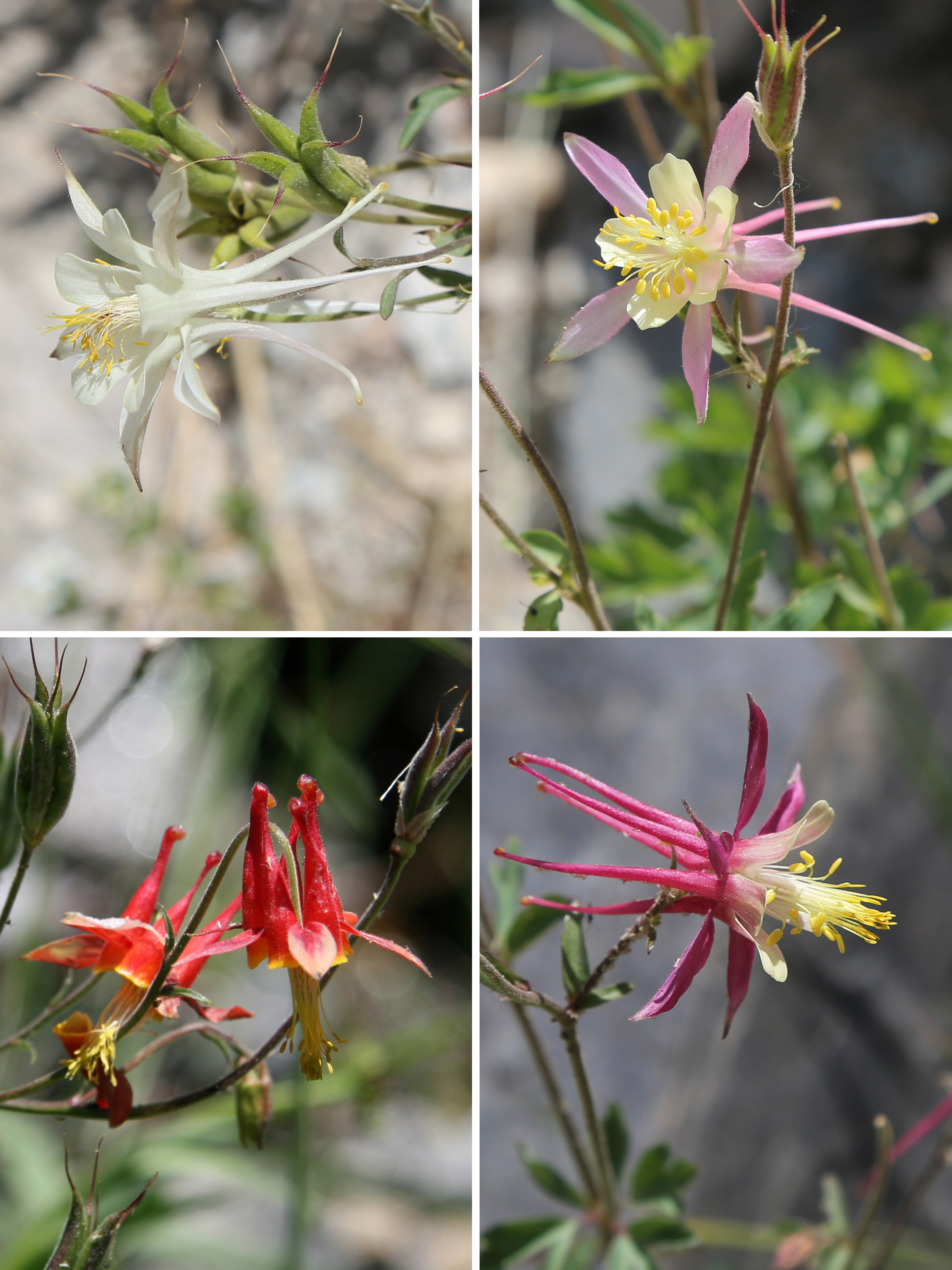 Transition of hybrid forms between the larger, erect, white Coville's columbine (Aquilegia pubescens) and the smaller, drooping, red-&-yellow crimson columbine (Aquilegia formosa), shown with 4 flower closeups. The first 3 are from the shore of Long Lake in Little Lakes Valley, and the last is from the Kaweah basin between Hamilton and Precipice Lakes.